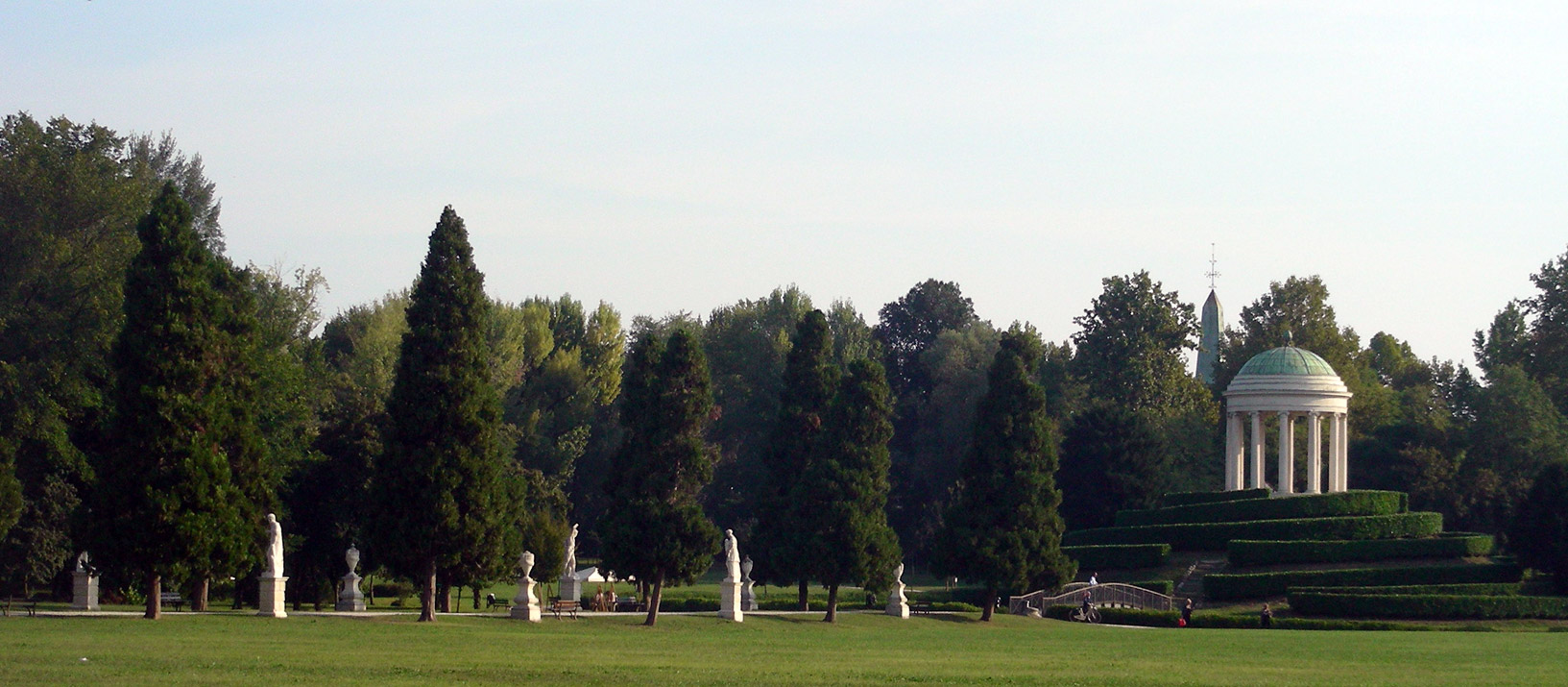 Italy, Veneto, Vicenza, Park Querini, general view